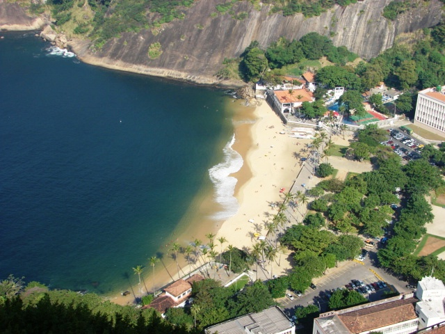 Praia Vermelha beach (Red Beach), Urca, Rio de Janeiro, Brazil. View from Urca Mountain top